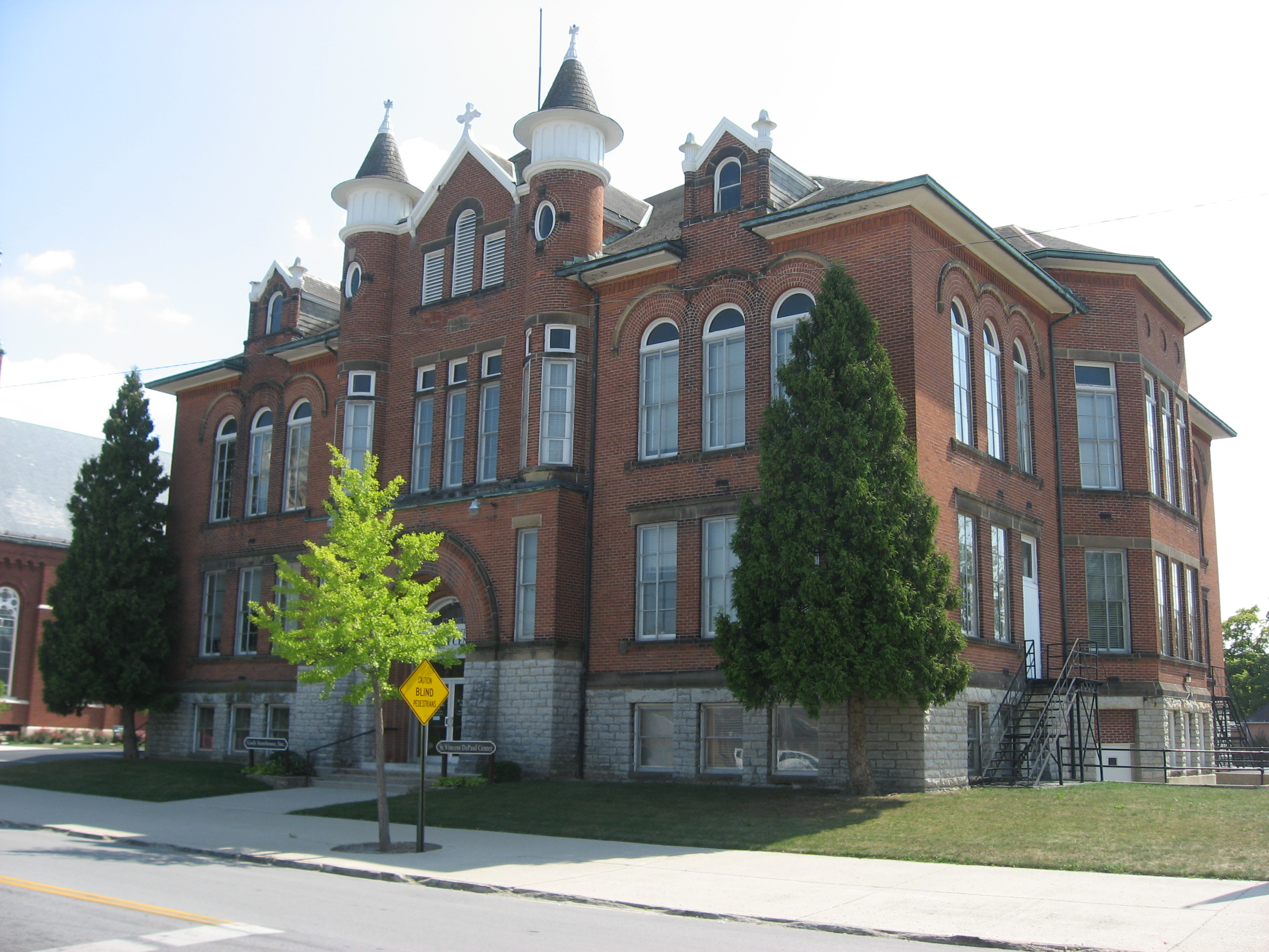 Front of St. Joseph's Catholic School, located along Pearl Street between Pine and Blackhoof Streets in downtown Wapakoneta, Ohio, United States. Built in 1899, the school and its adjoining school were listed on the National Register of Historic Places as a part of the Cross-Tipped Churches of Ohio Thematic Resources.